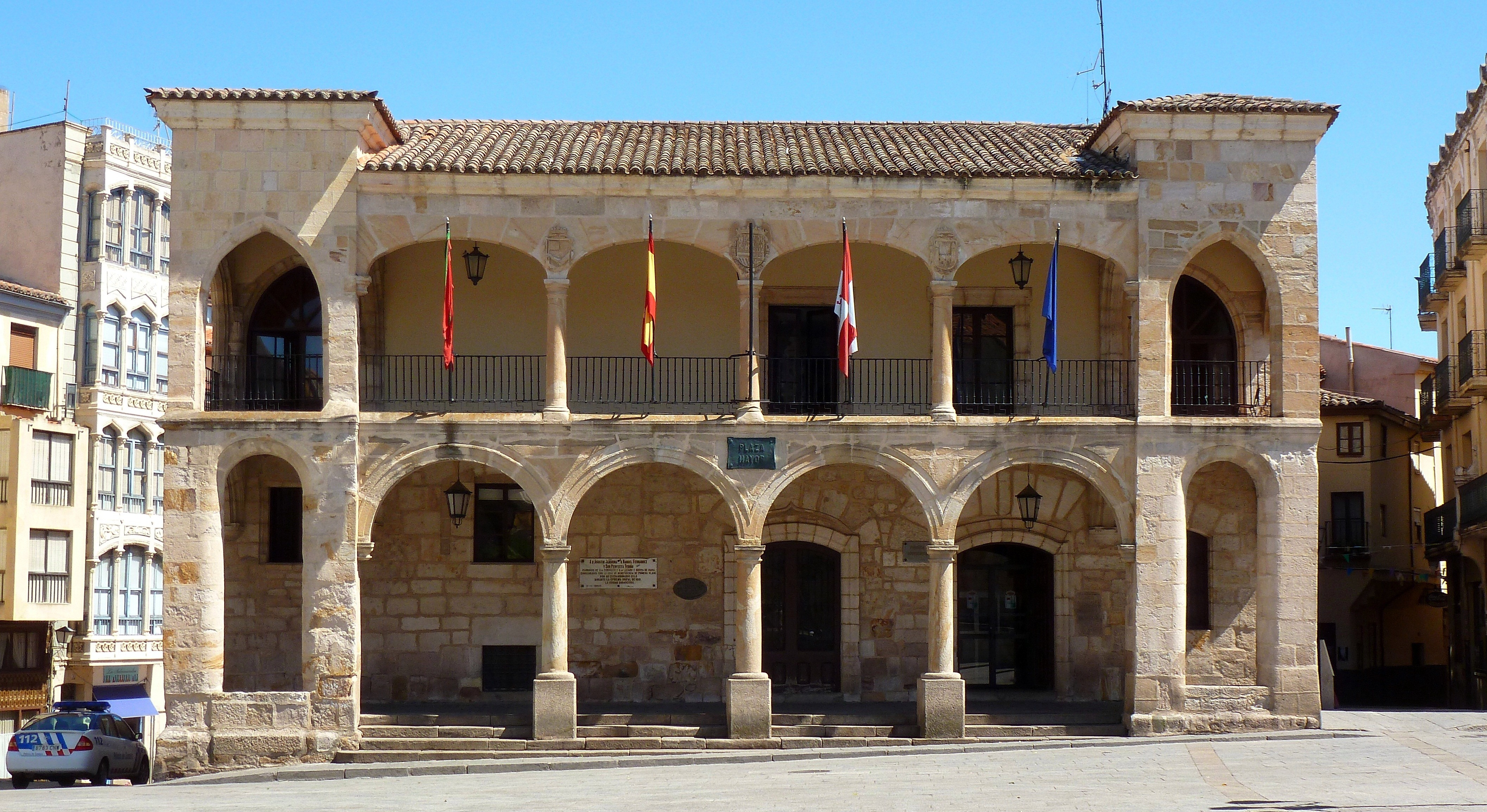 Old Town hall of Zamora, Spain.